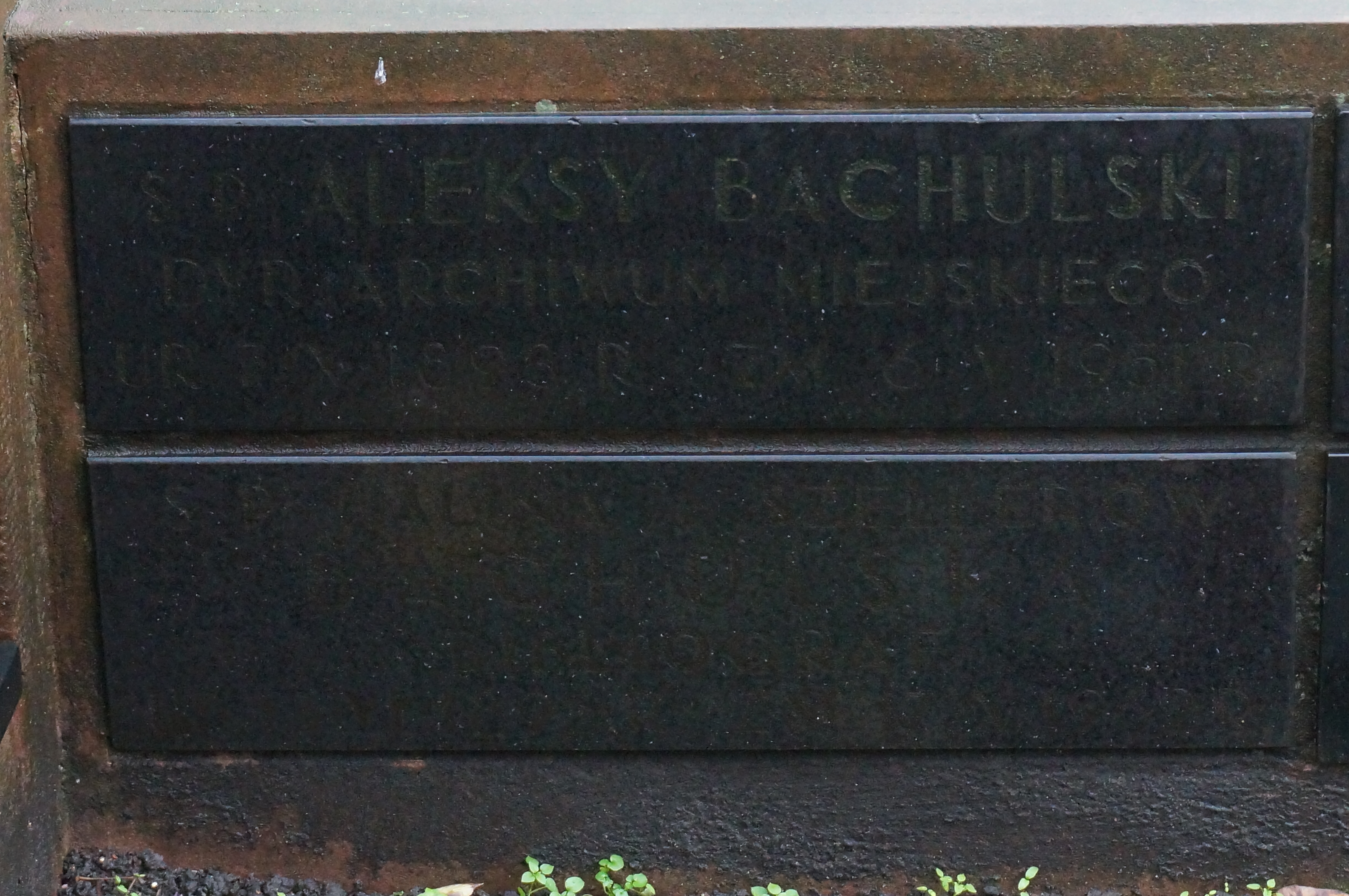 Grave plaque on the grave of Aleksei Bachulski at the Powązki Cemetery (section 227, row 6, grave 1-2)